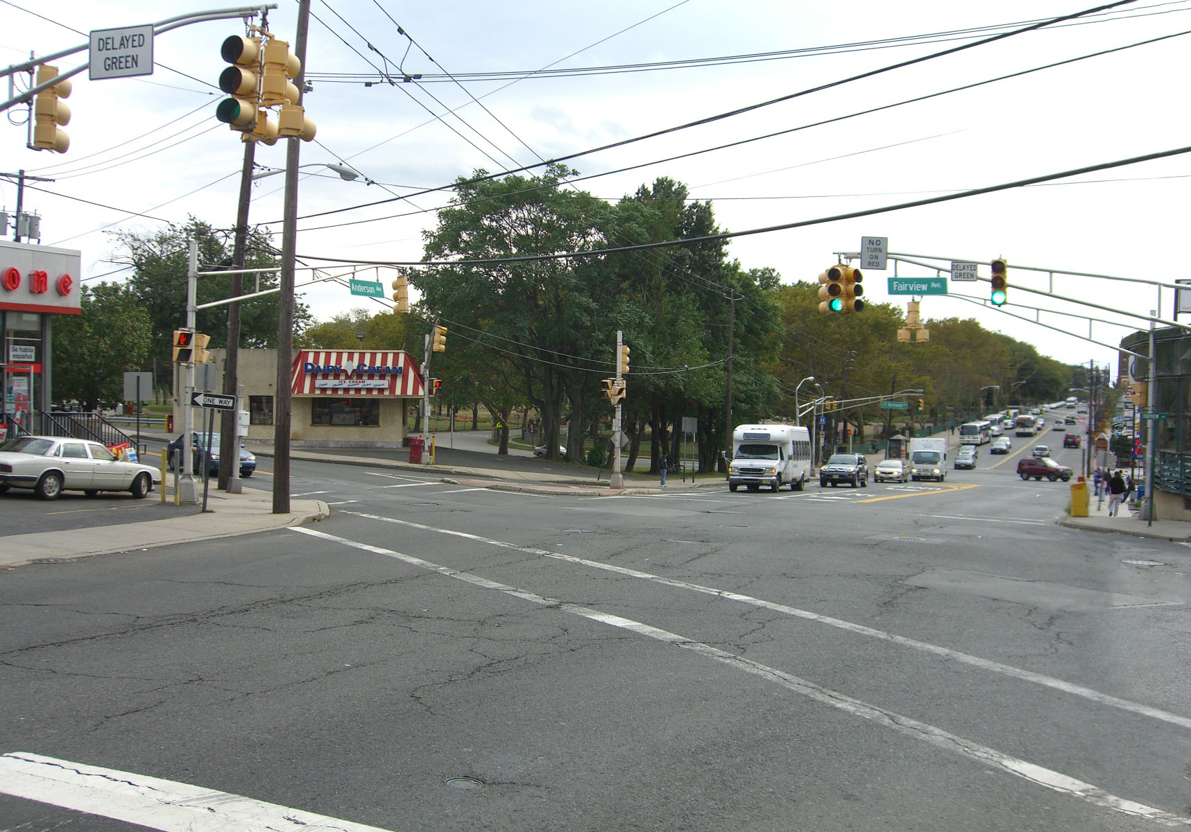 The Nungesser’s intersection in the Woodcliff neighborhood of North Bergen, New Jersey. The intersection is formed by Bergenline Avenue (running from the foreground to the right background) and Woodcliff Avenue (crossing from left to right), at the northwestern corner of James. J. Braddock North Hudson Park, near the Fairview border.